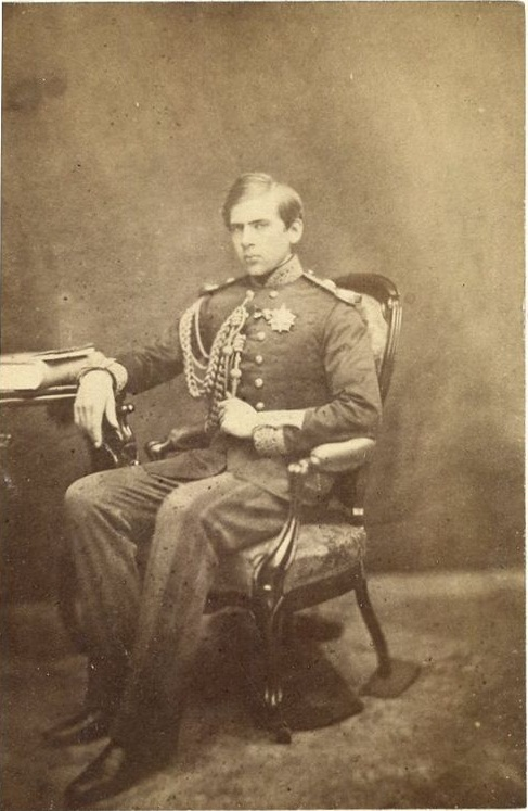 King Pedro V of Portugal (1837-1861)